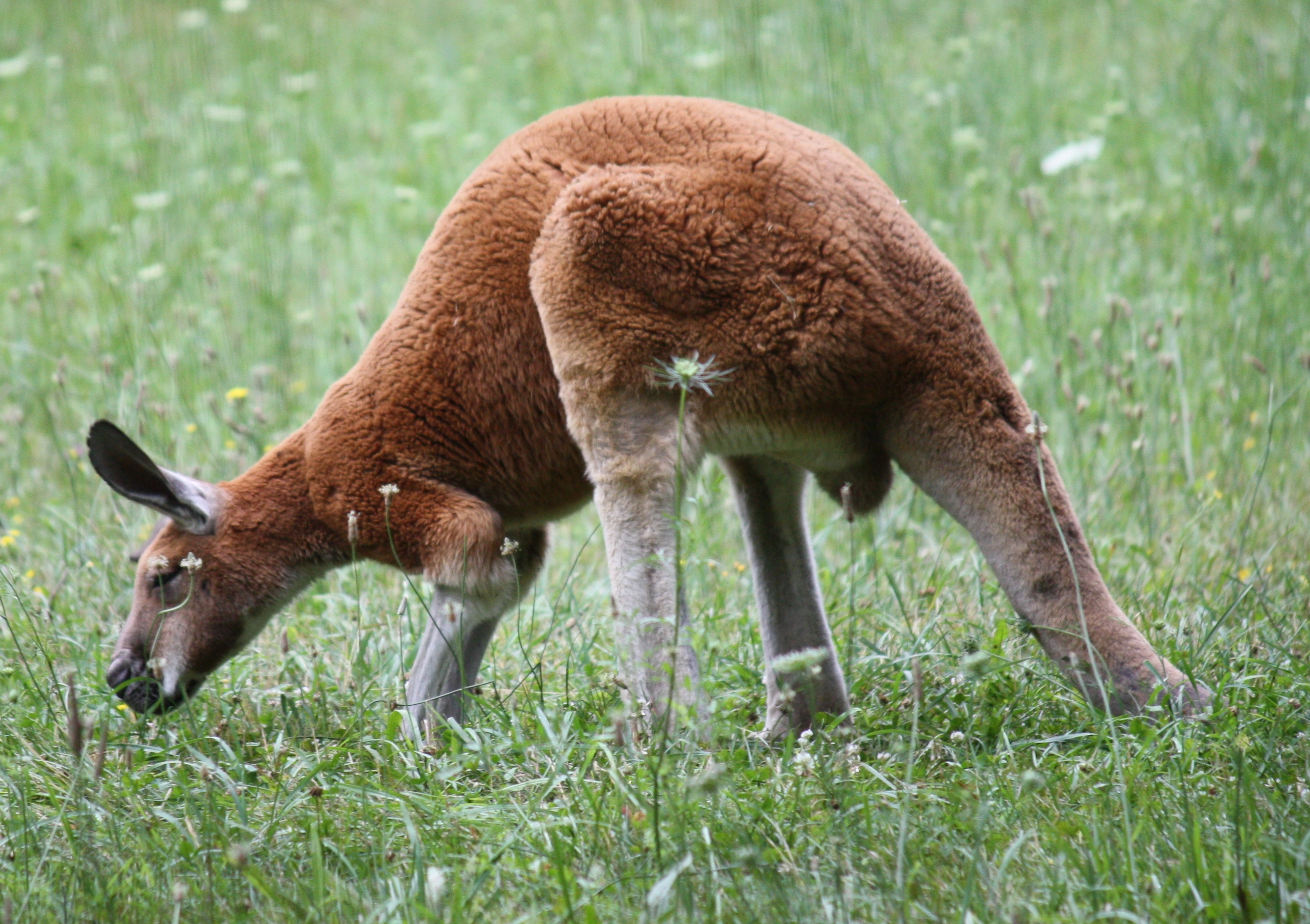 Red Kangaroo Macropus rufus at Binder Park Zoo in Battle Creek, Michigan